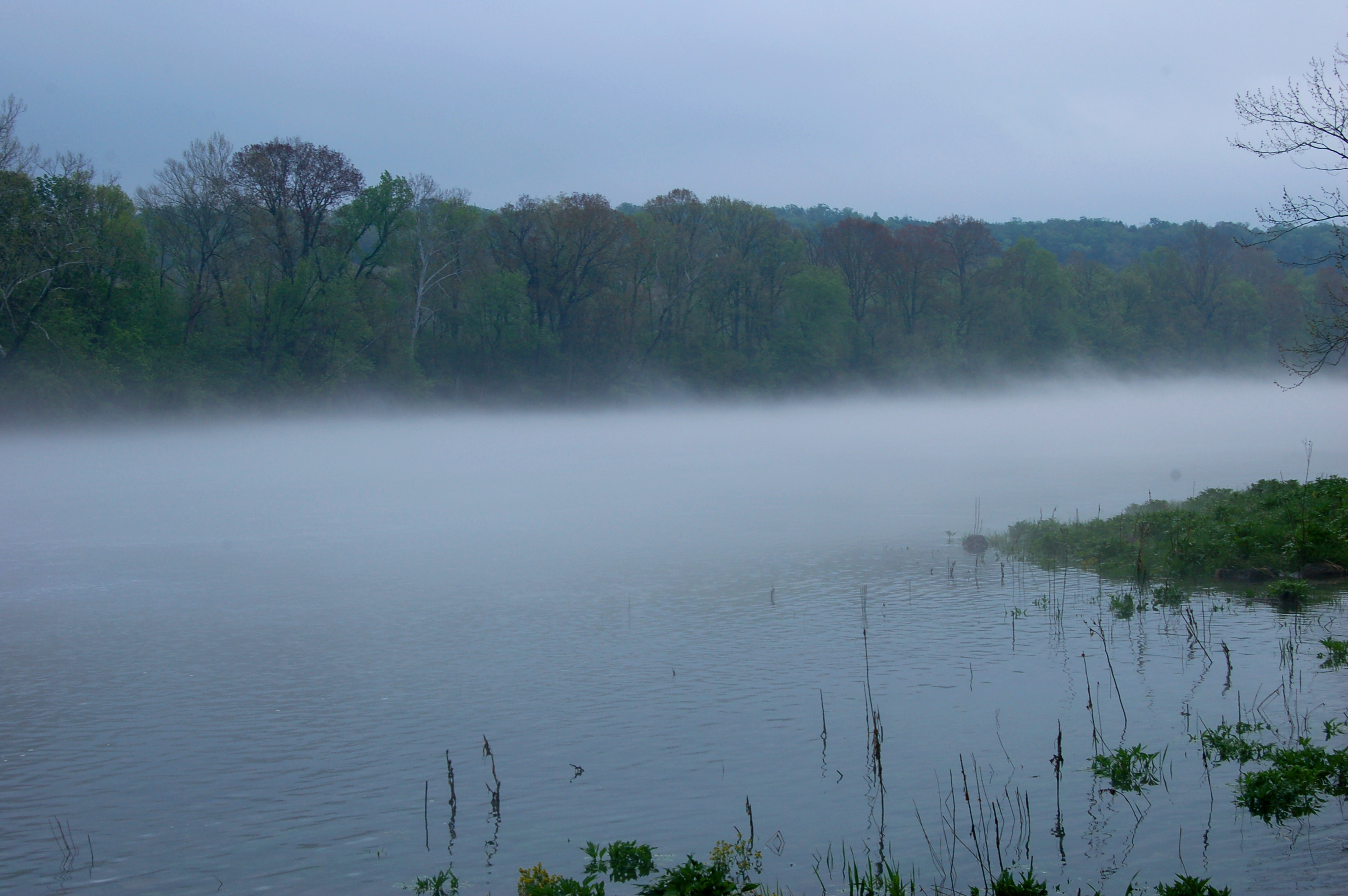 I took this picture early one morning on my way to school. I just love the fog coming off the lake.